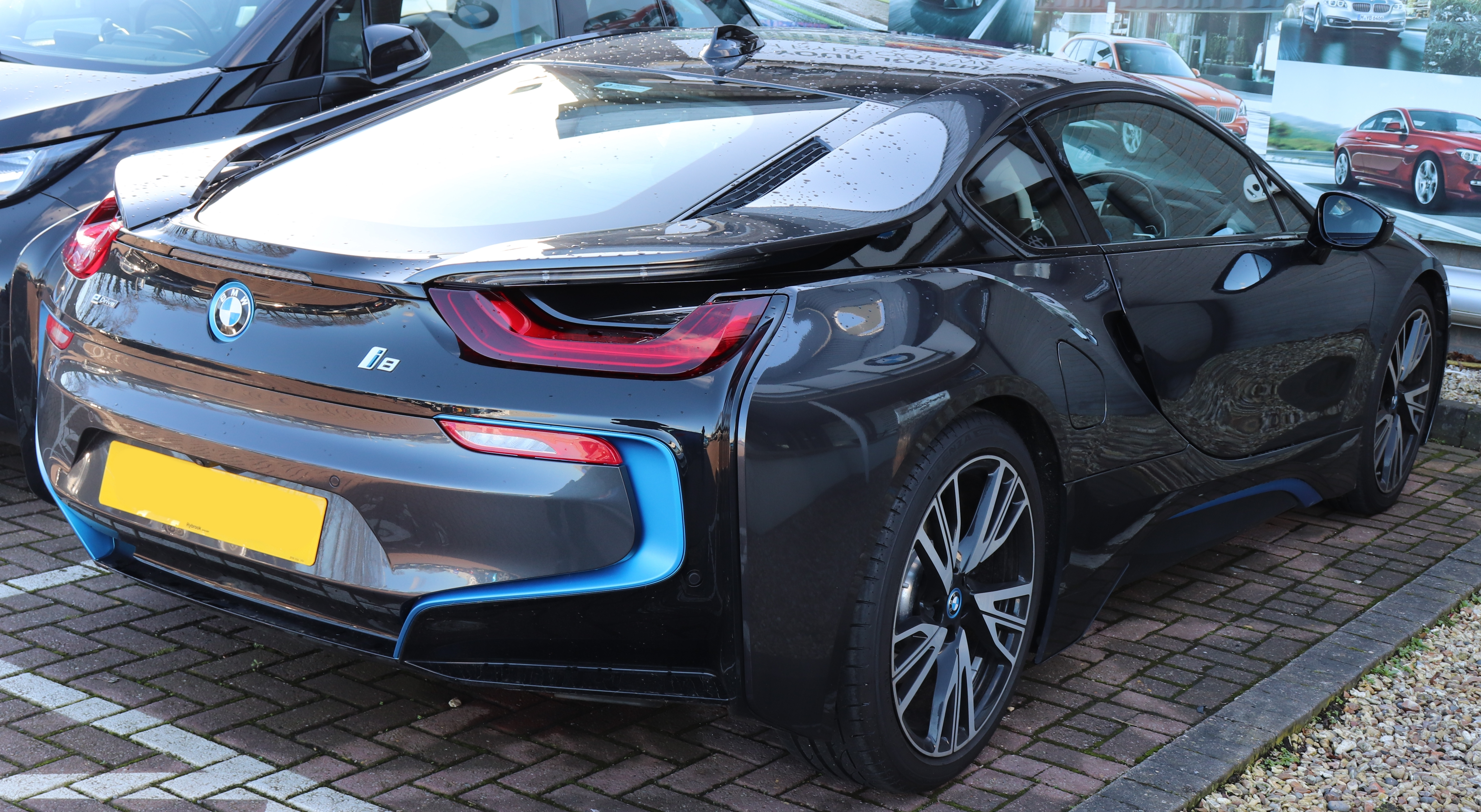 2017 BMW i8 1.5 Rear Taken in Leamington Spa